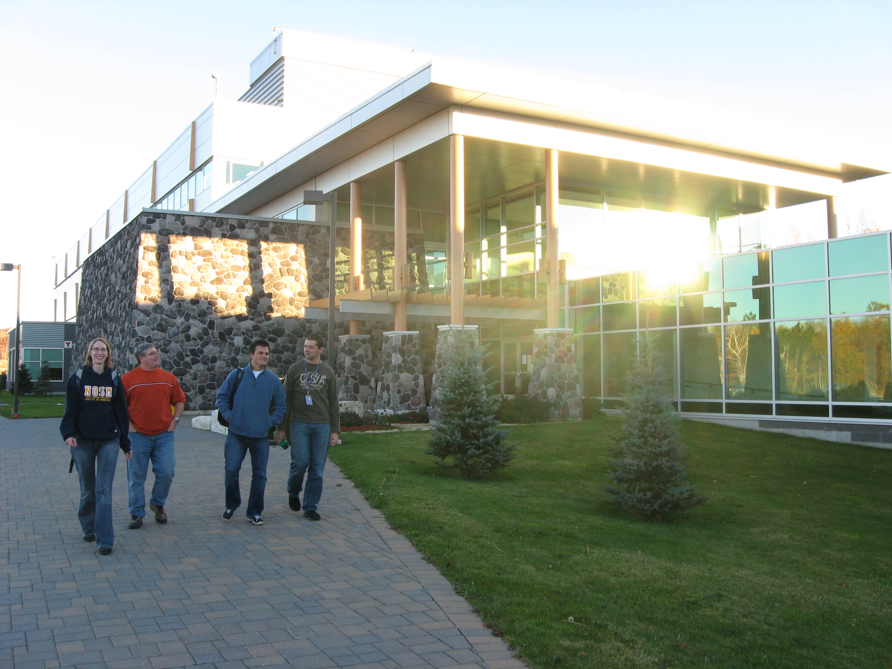 The Northern Ontario School of Medicine's East Campus